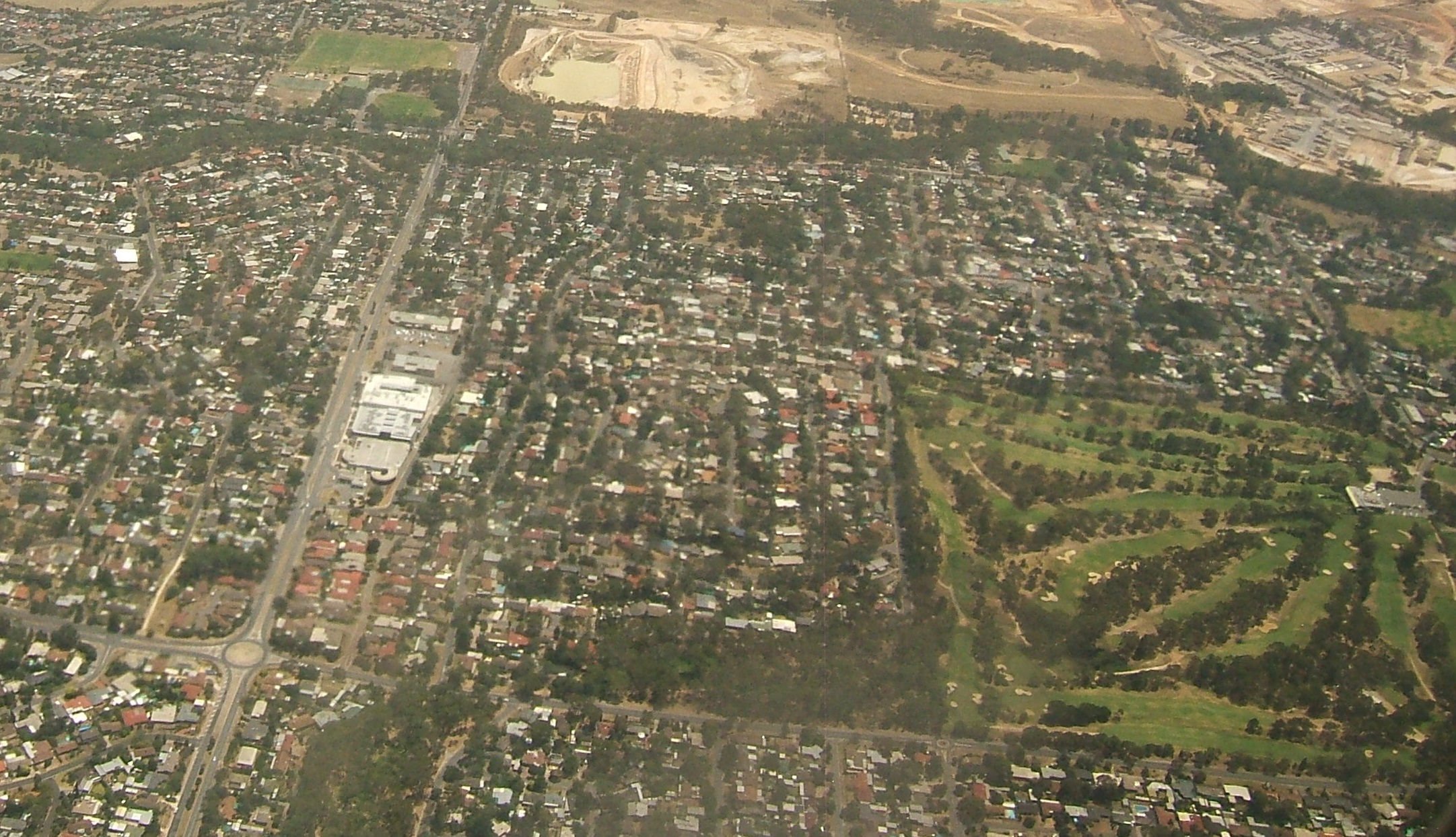 Fairview Park aerial view, Adelaide